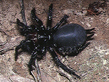 female Macrothele gigas from Okinawa.